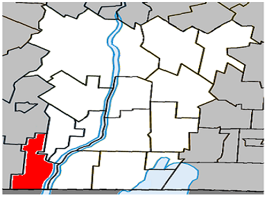 Location of Lacolle, Quebec within Le Haut-Richelieu Regional County Municipality.